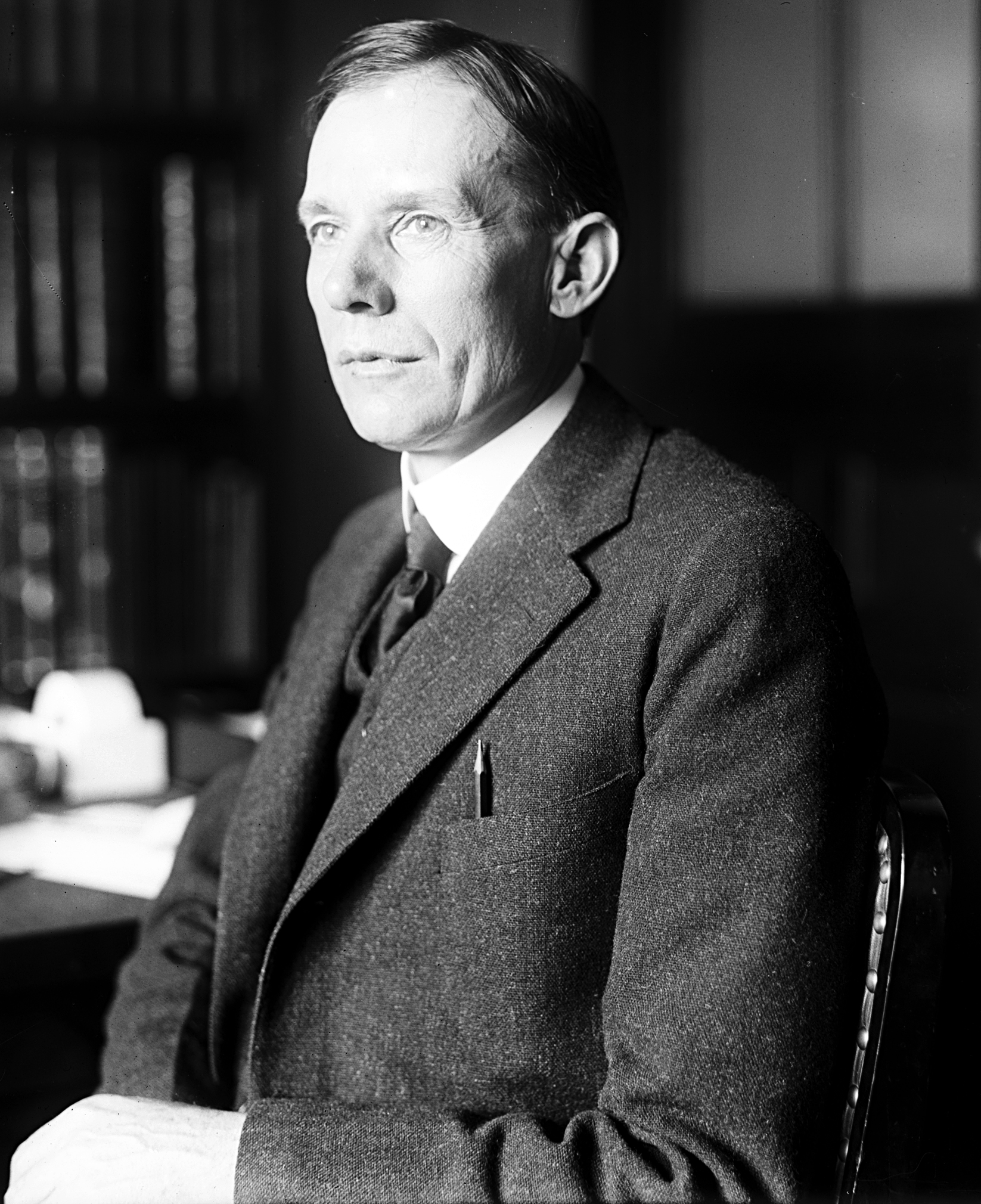 Zebulon Weaver, US Representative from North Carolina